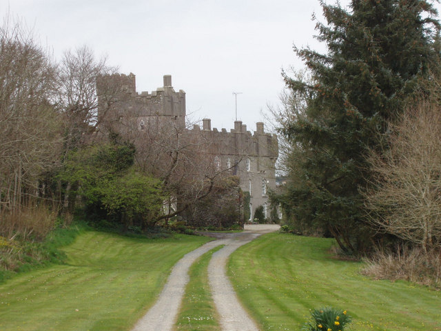 Bargy Castle A Norman castle, now a hotel. View from road.